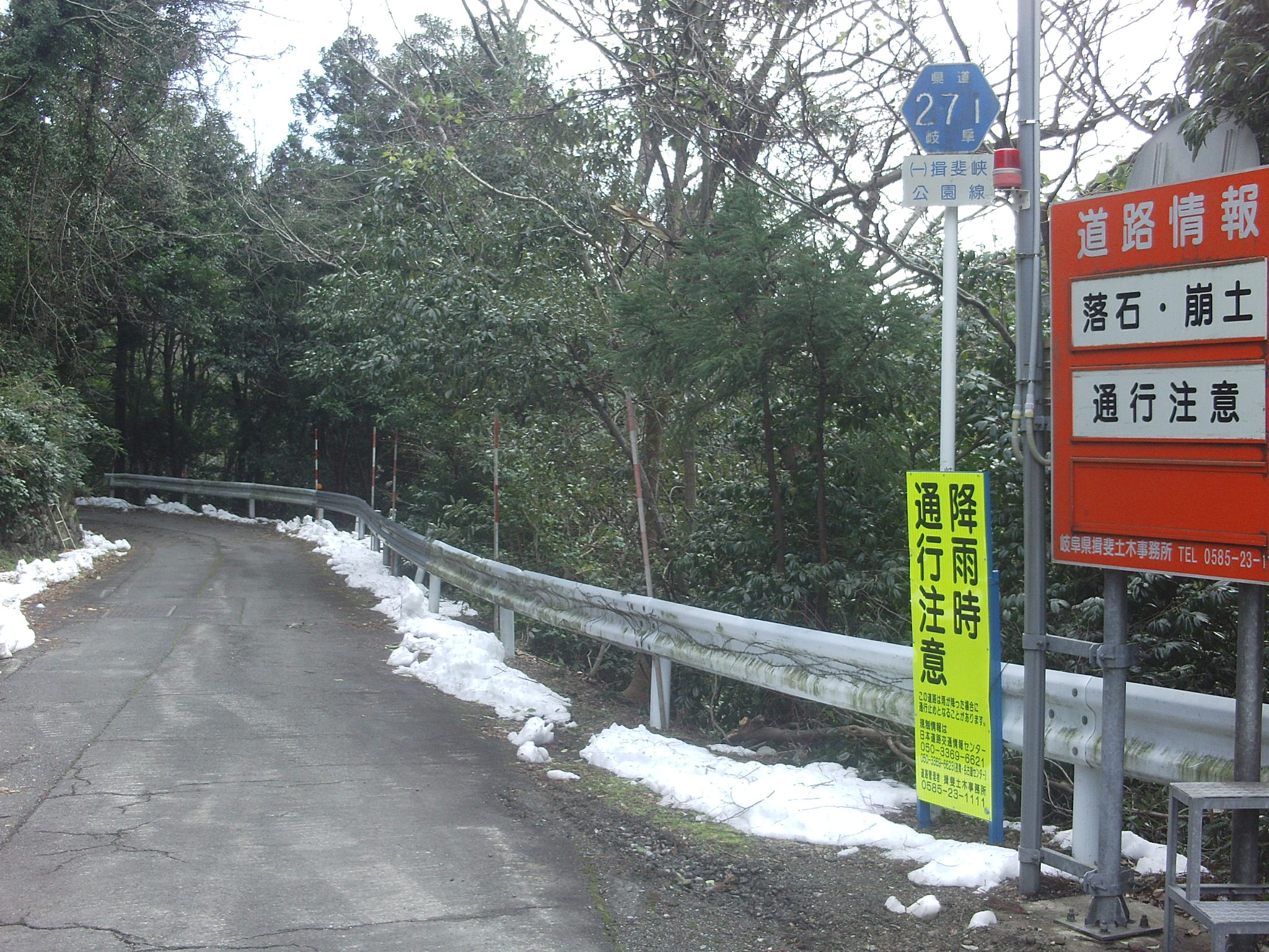 Starting point of Gifu prefectural road No.271 in Kitagata, Ibigawa town, Ibi-gun, Gifu.